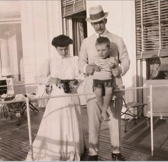 Grand Duke Andrei Vladimirovich, Mathilde Kschessinska and their son in France